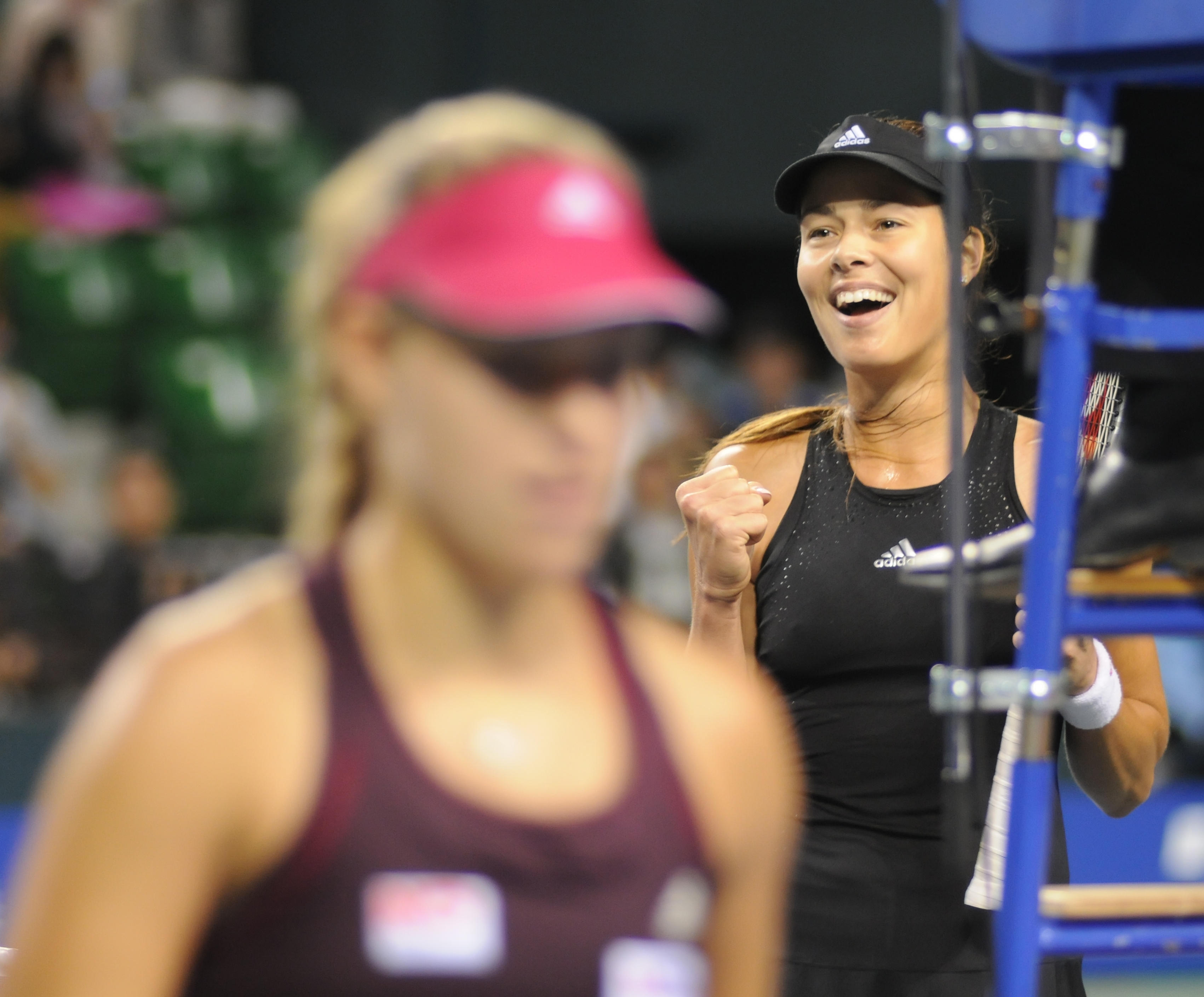 Ana Ivanović and Angelique Kerber at the 2014 Toray Pan Pacific Open